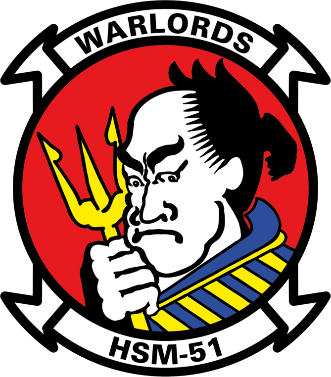 Insignia of the United States Navy Helicopter Maritime Strike Squadron 51 (HSM-51) "Warlords".